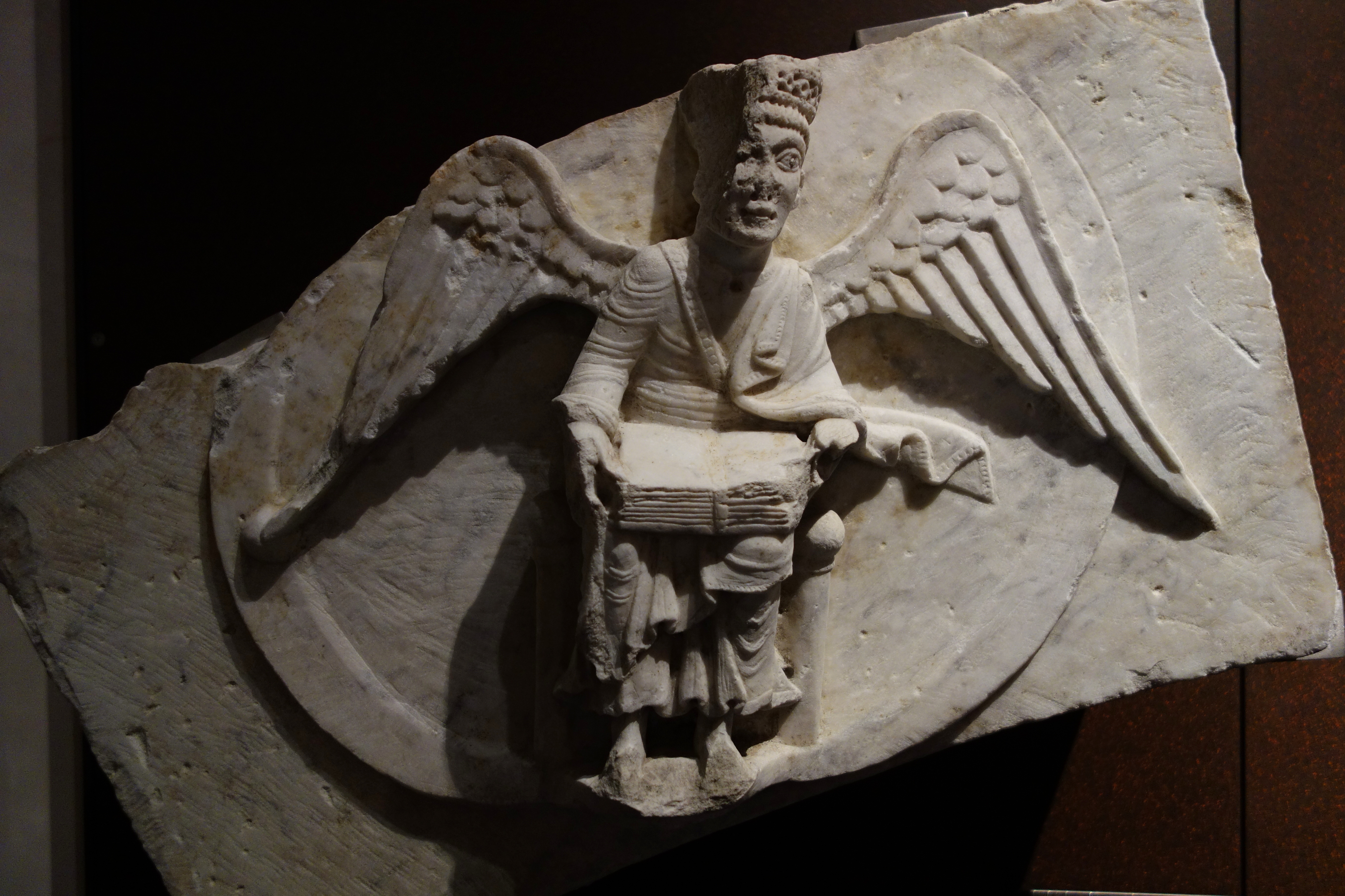 Exhibit in Museo Diocesano, Via Tommaso Reggio, 20 r, Genoa, Italy. All artwork in this museum is old enough so that it is in the public domain.